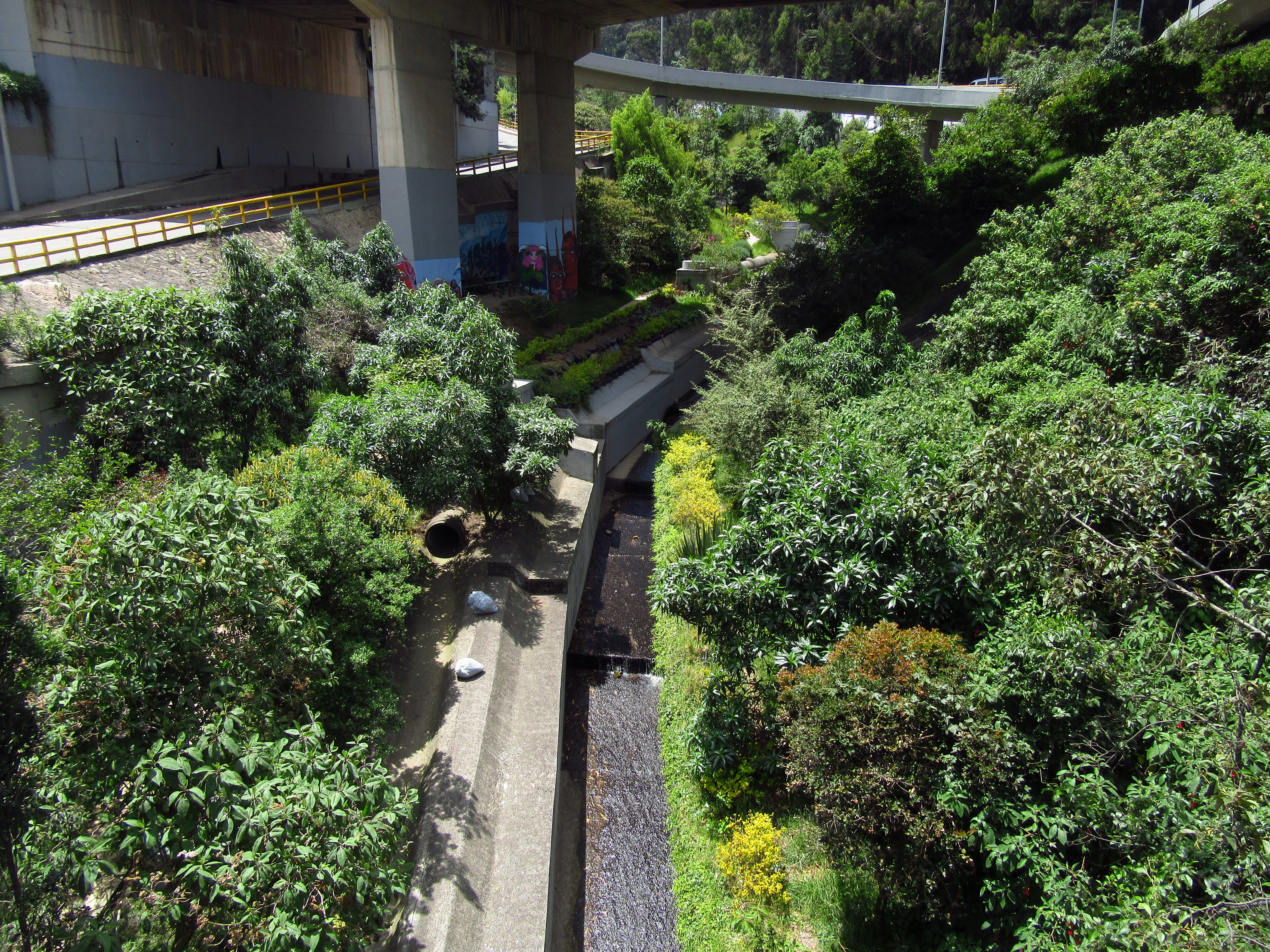 Bogotá